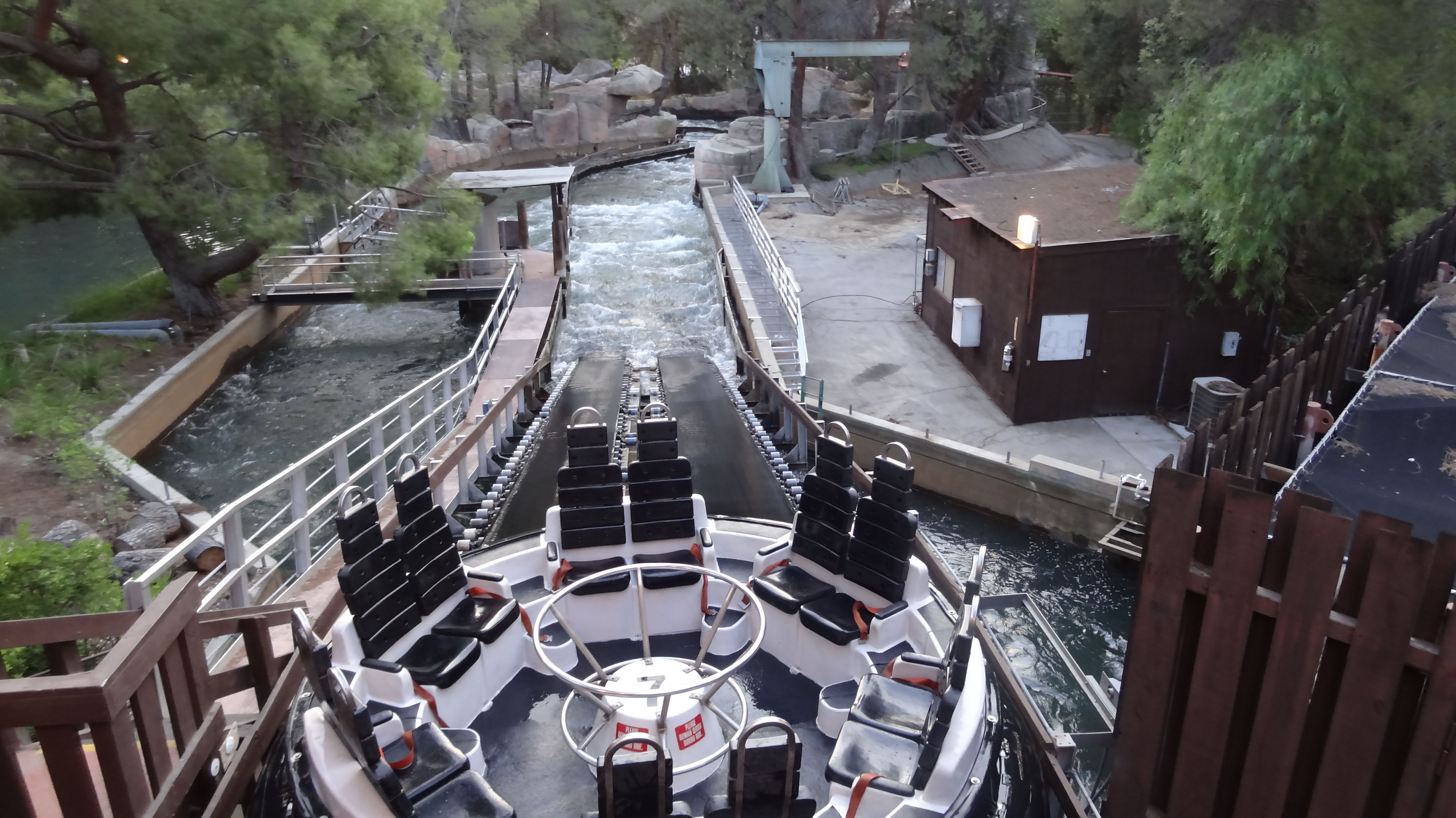 Roaring Rapids at Six Flags Magic Mountain. Many guests claim it is the best water ride at the park.